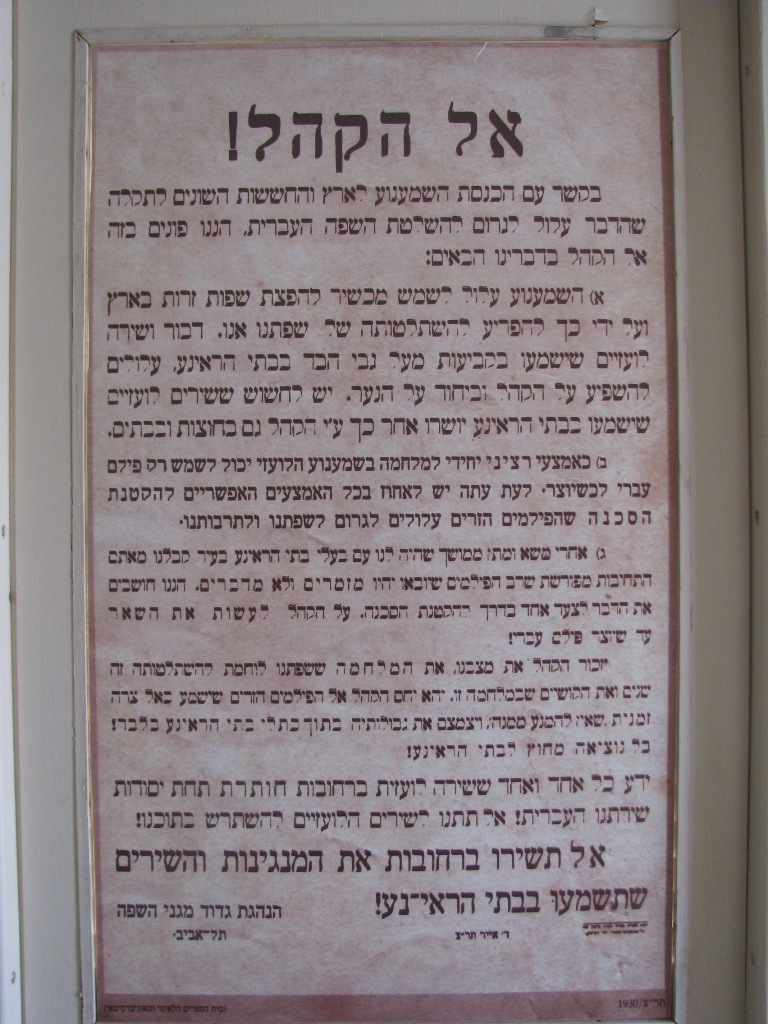 Warning the public of the damage Ahshmanoa - foreign poetry